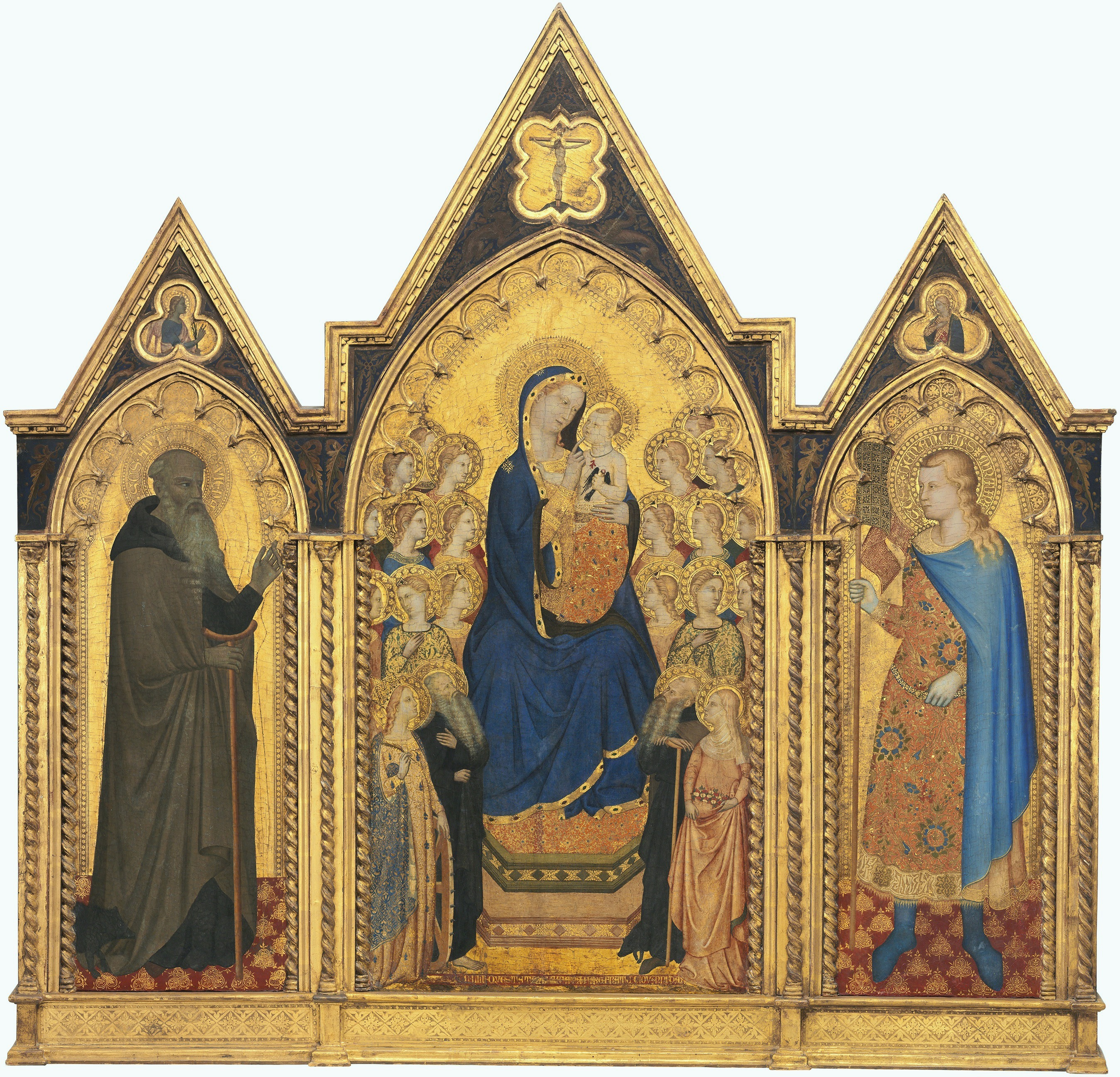 Puccio di Simone and Allegretto Nuzi. Madonna and Child with Saints. 1354. Washington NGA.